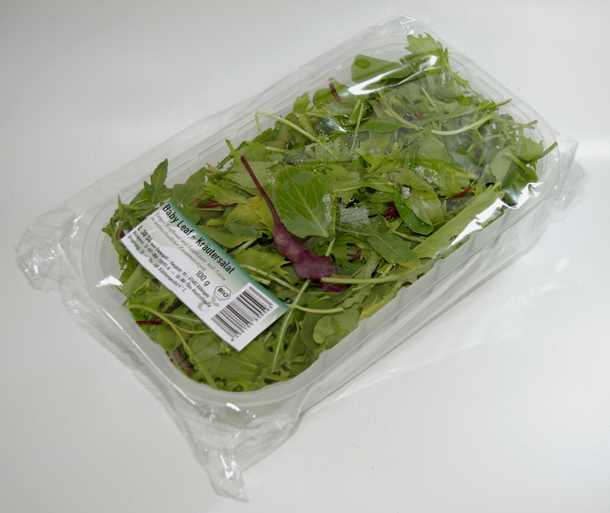 Packaging blister made by bioplastics (Celluloseacetat)